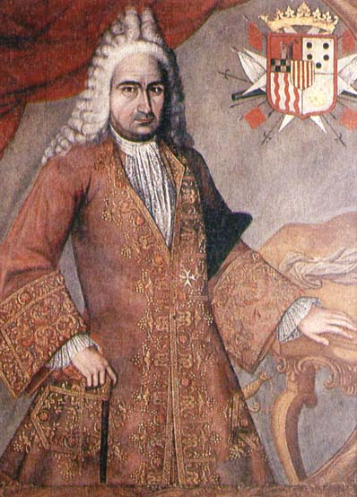 Jorge de Villalonga (1665-1735), Viceroy of New Granada, 1719-24